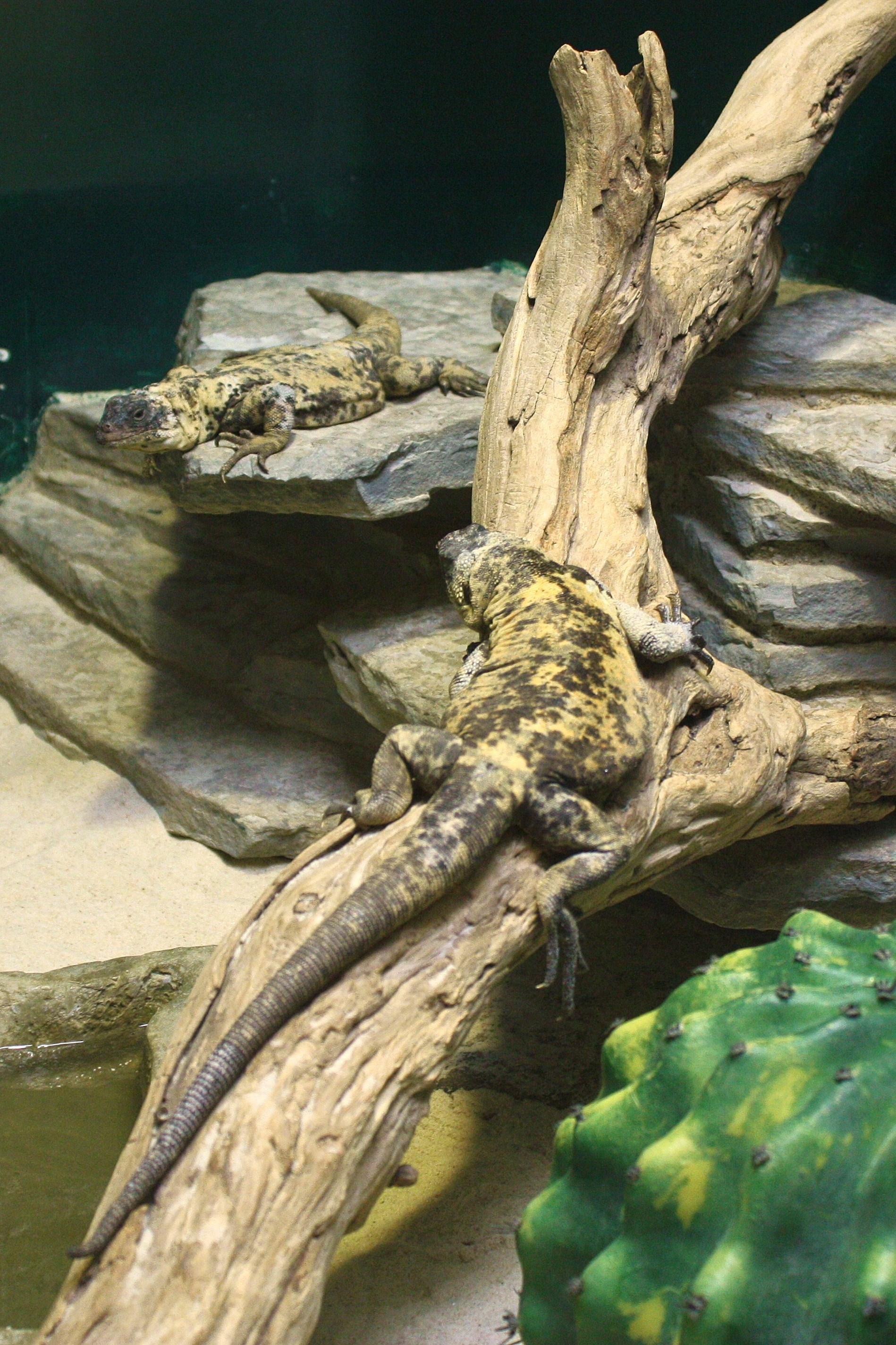 San Esteban Chuckwalla (Sauromalus varius). Columbus Zoo, Powell, Ohio.